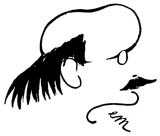 Caricature of Edmond Rostand in "Le Figaro"